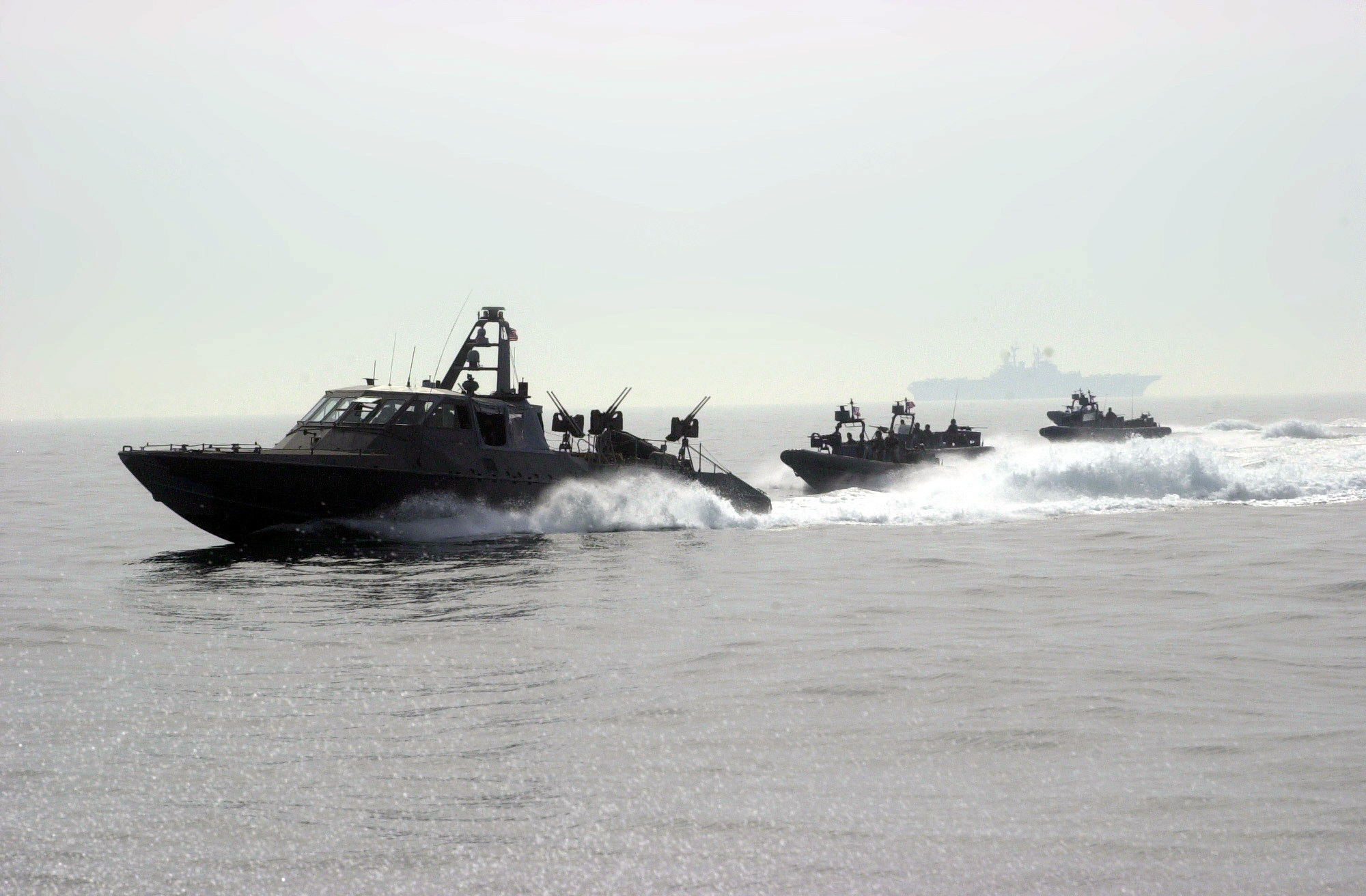 Naval Special Warfare Combatant-craft Crewmen operate rigid hull inflatable boats (RHIB) and Mark V Special Operations Craft from a forward operating location. The RHIB is equipped with 50 caliber machine guns and primarily supports Naval Special Warfare Operations.